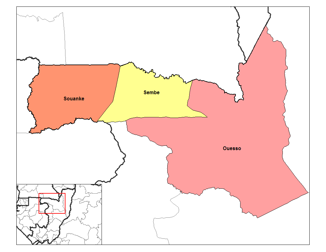 Map of the districts of the Sangha Department — in the western Republic of the Congo. Credits Created by Rarelibra 15:15, 12 September 2006 (UTC) for public domain use, using MapInfo Professional v8.5 and various mapping resources.